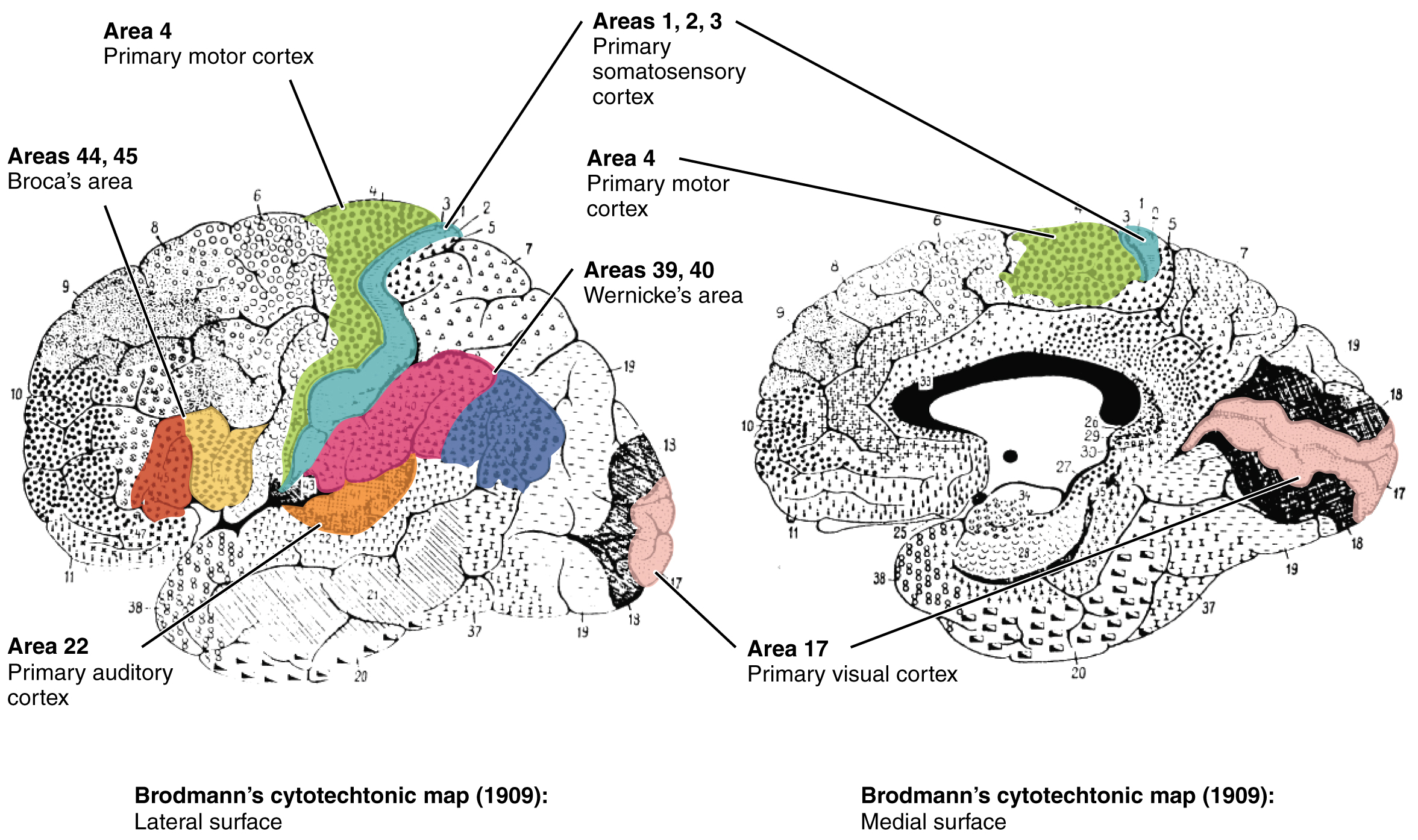 Version 8.25 from the Textbook OpenStax Anatomy and Physiology Published May 18, 2016